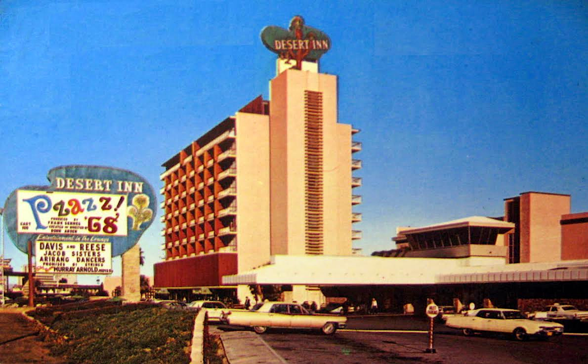 Photo of The Desert Inn Hotel and Casino, Las Vegas